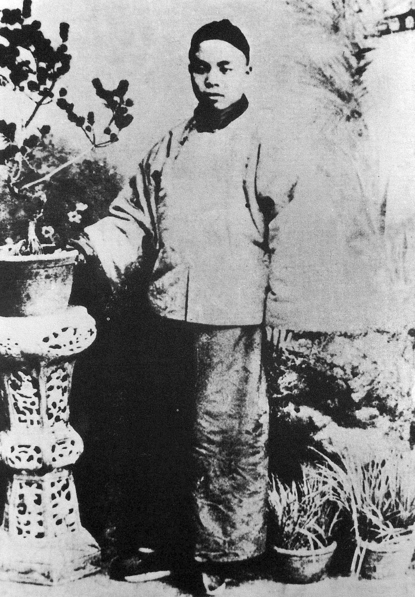 Lin Xu (林旭), a Chinese politician of Qing Dynasty, one of the "Six Gentlemen" executed by Empress Dowager Cixi after the Hundred Days' Reform.